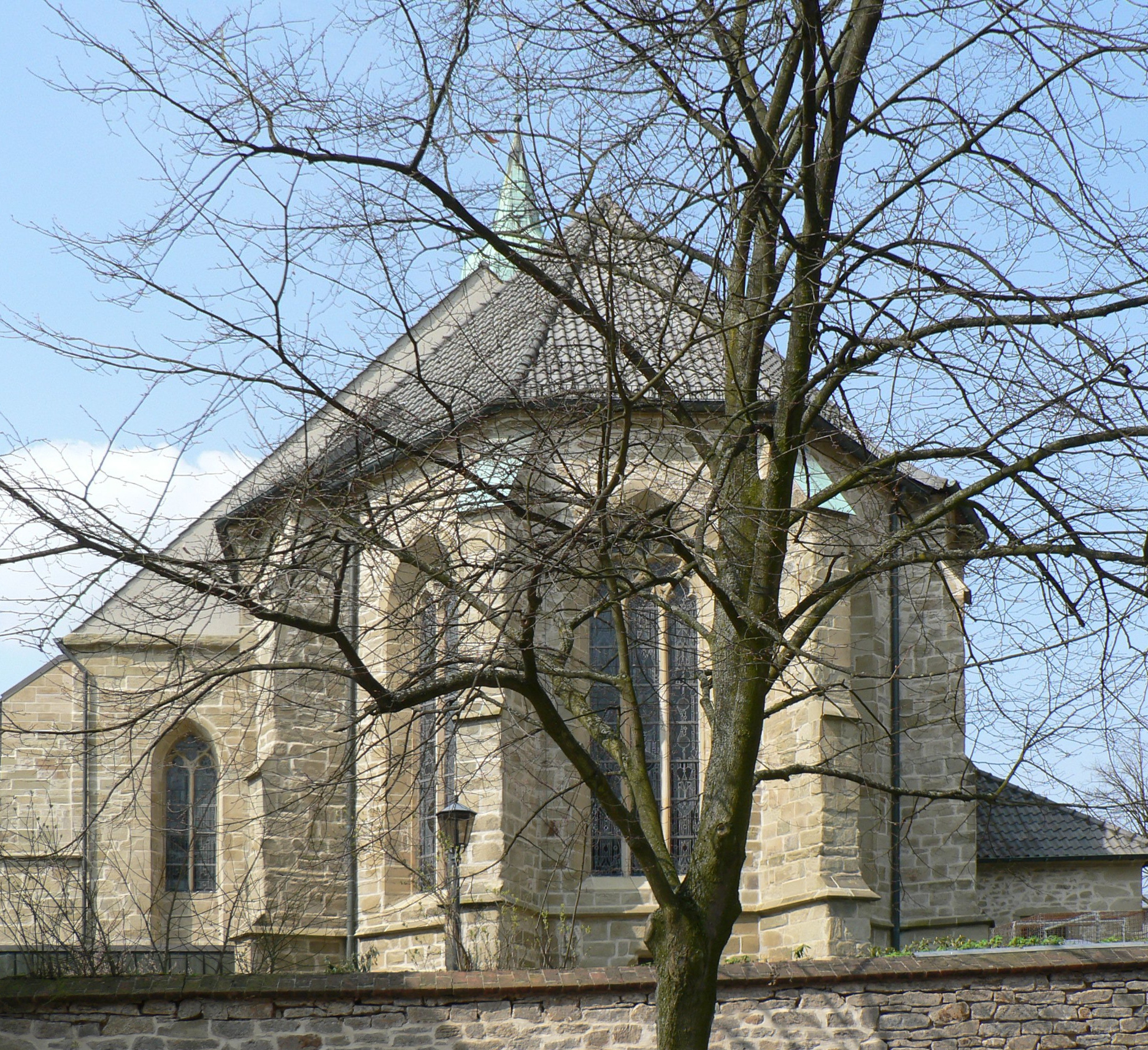 own file